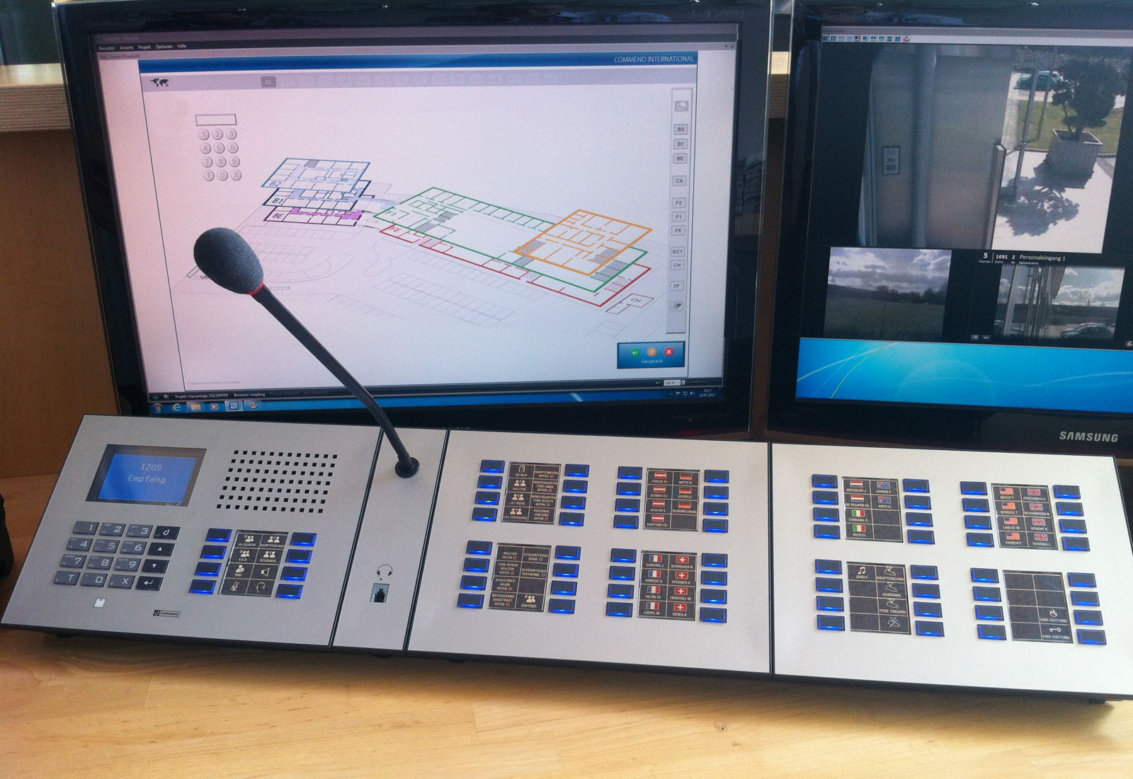 Current Intercom Control Desk for Control Rooms as central point of intercom communication.